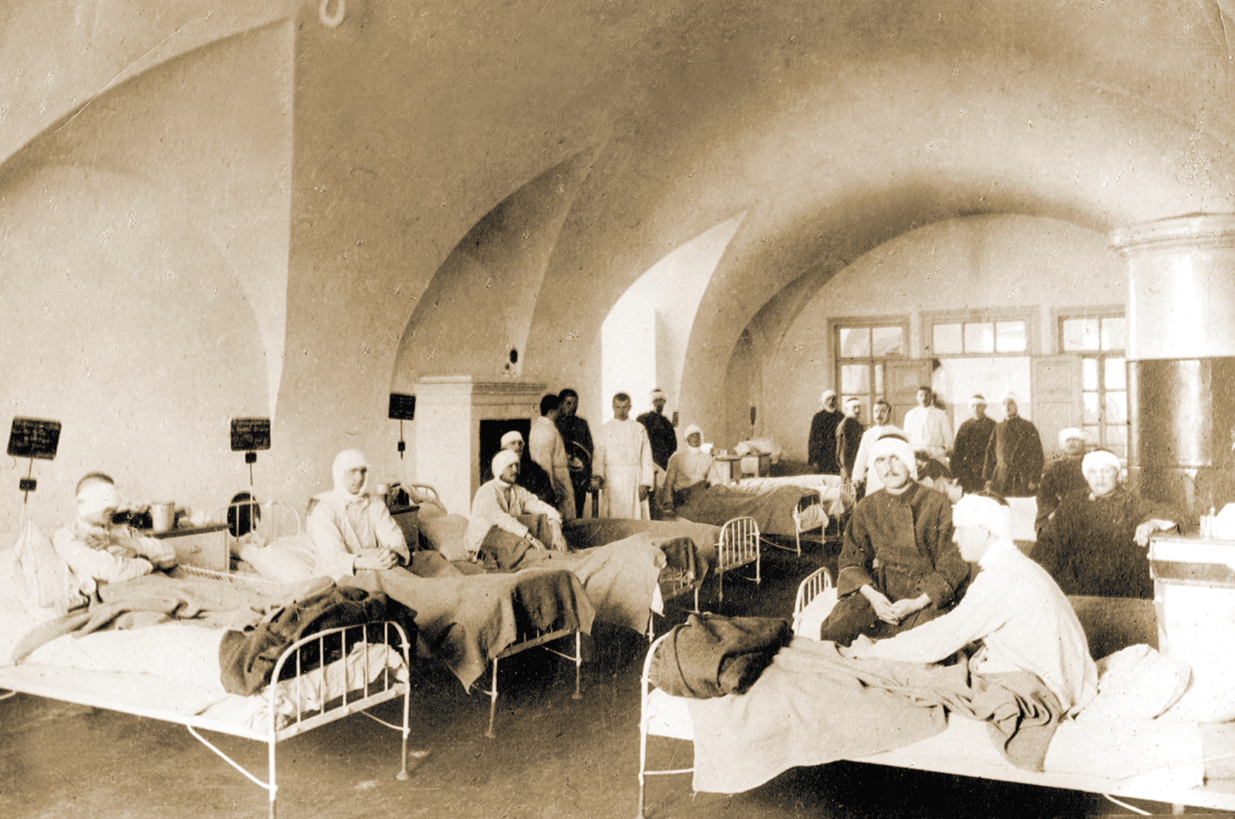 A ward of Kiev military hospital